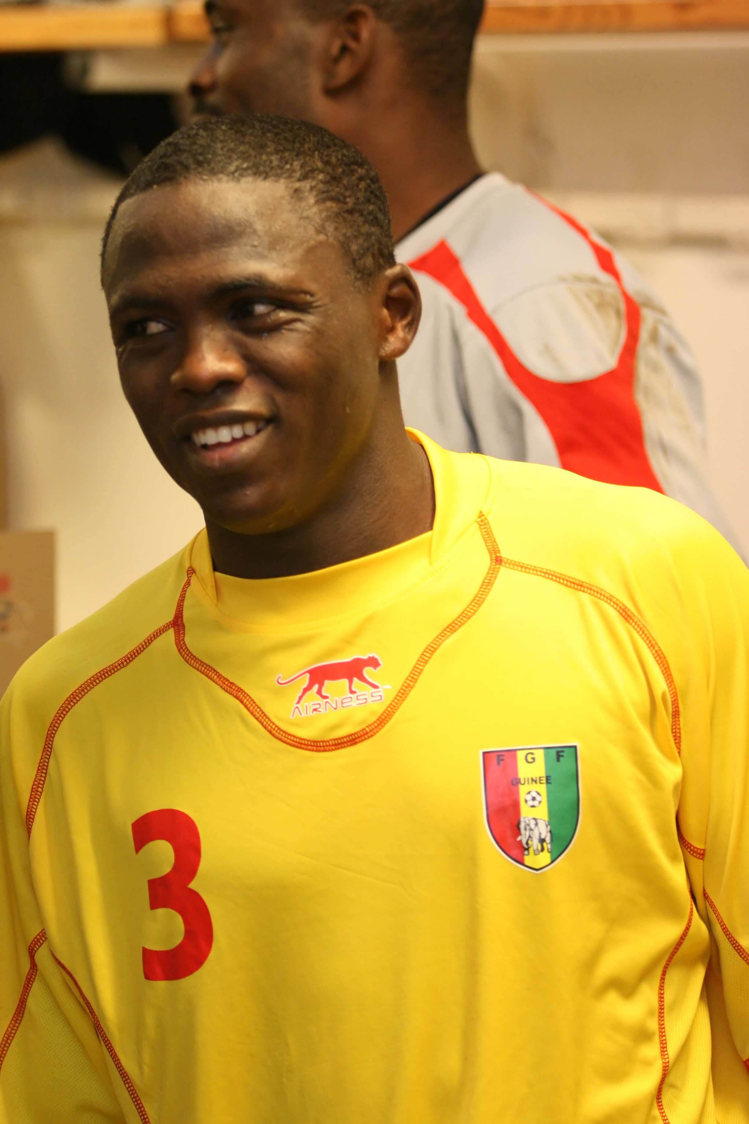 Ibrahima Sory Camara, Guinean football player, during Guinean national team friendly match against the Stade Rennais youth team.